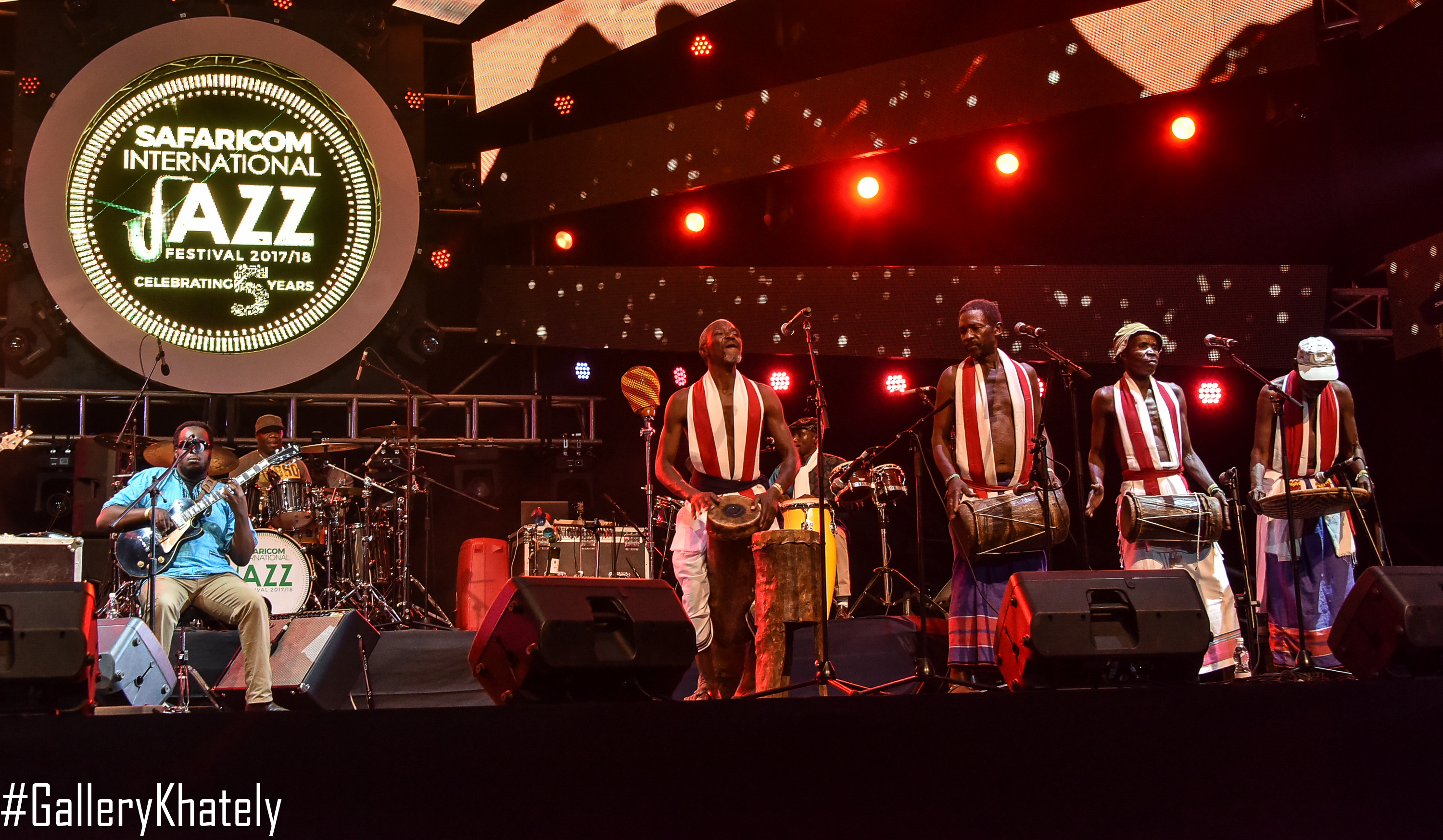 The Mambo Tribe from Kenya during the Safaricom Jazz Lounge, a concert to commemorate and celebrate our love for Jazz. This is an image of "African people at work" from Kenya